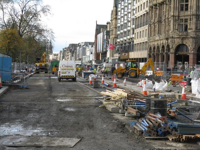 Princes Street - November 2009 The trams are still coming. Some notices said this work would be done by the end of November - 26 days to go? I wonder!